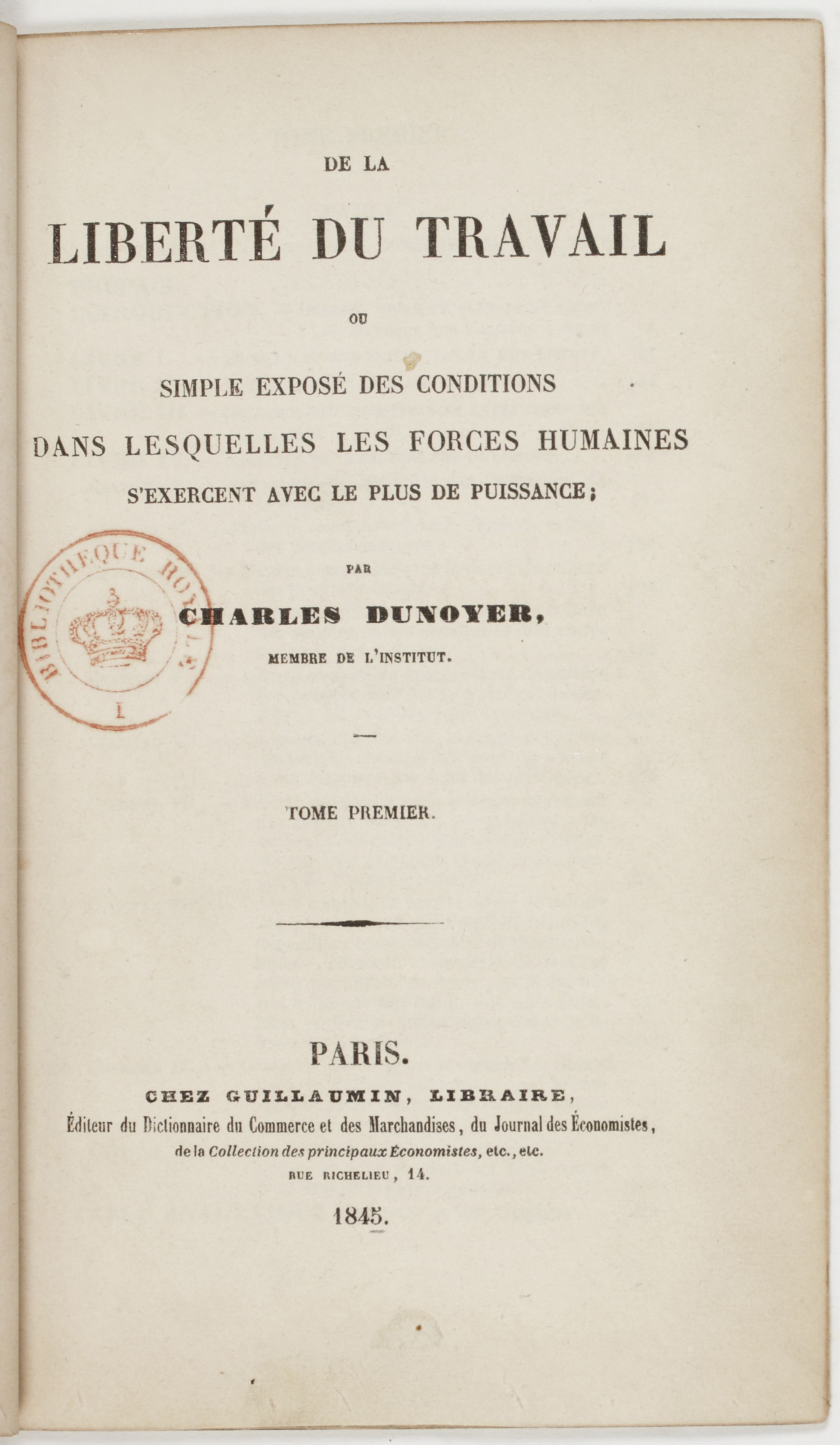 Frontispiece of Charles Dunoyer’s De la Liberté du travail, ou Simple exposé des conditions dans lesquelles les forces humaines s'exercent avec le plus de puissance, vol. 1, Guillaumin (Paris) : 1845.